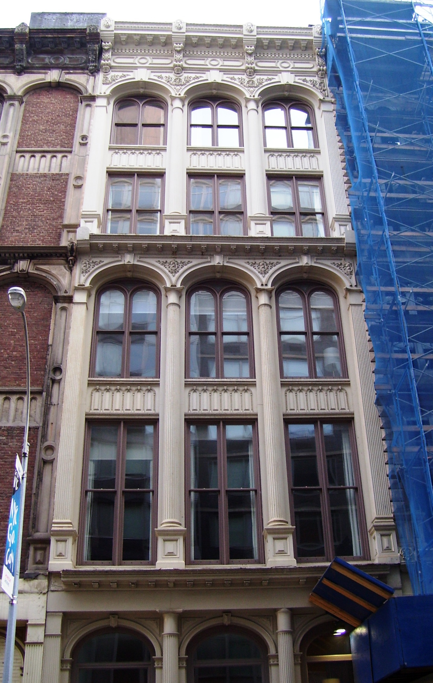 The Kitchen, Montross & Wilcox Store at 85 Leonard Street between Broadway and Church Street in the Tribeca neighborhood of Manhattan, New York City was built in 1861 in the Italianate "sperm candle style" for a company which dealt in dry goods. The cast-iron for the building came from James Bogardus' ironworks, one of the few surviving buildings known to have been supplied by him. The "sperm-candle style" comes from the resemblence of the columns to candles made from sperm-whale oil. The building was designated a NYC landmark in 1974. (Source: Guide to NYC Landmarks (4th ed.))